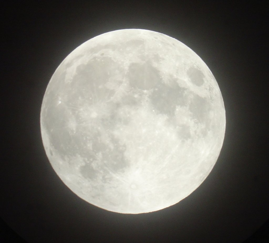 Surface of Moon